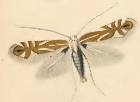 Stainton’s Natural History of the Tineina (1855–1873): Phyllonorycter quinnata